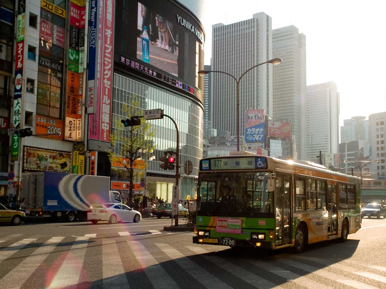 Toei Bus "Haya 77" route bound for Waseda, through Yasukuni Street on every Sunday afternoon for pedestrian zone at Shinjuku Street. Model: Hino Blue Ribbon HU2PM (Prototype) License plate: TKN22 KA7200 Place: Kabukicho, SHinjuku Ward, Tokyo Japan